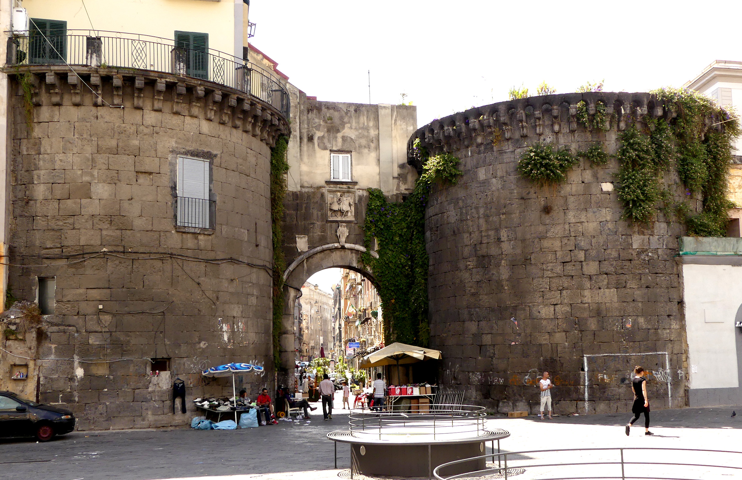 Porta Nolana, Naples